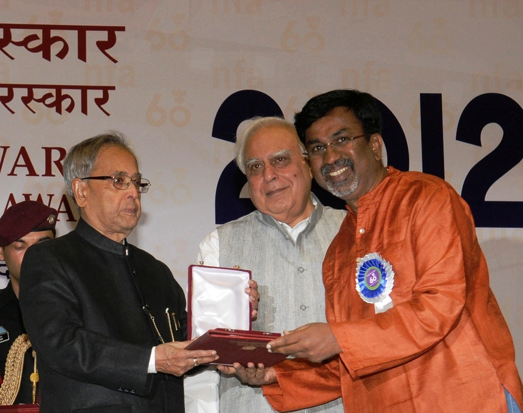 The President, Shri Pranab Mukherjee presenting the Rajat Kamal Award for Best Kannada Film to the Director, P Sheshadri, at the 60th National Film Awards function, in New Delhi on May 03, 2013. The Union Minister for Communications and Information Technology, Shri Kapil Sibal, the Minister of State (Independent Charge) for Information & Broadcasting is also seen in the picture.